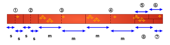 сувій для кімоно (2) How to cut kimono bolt: 1 and 2: sode, sleeves; 3 and 4: migoro, body piece; 5 and 6: okumi, front gusset; 7 and 8: collar pieces. S: sodetake, sleeve length (or depth), m: mitake, body length.